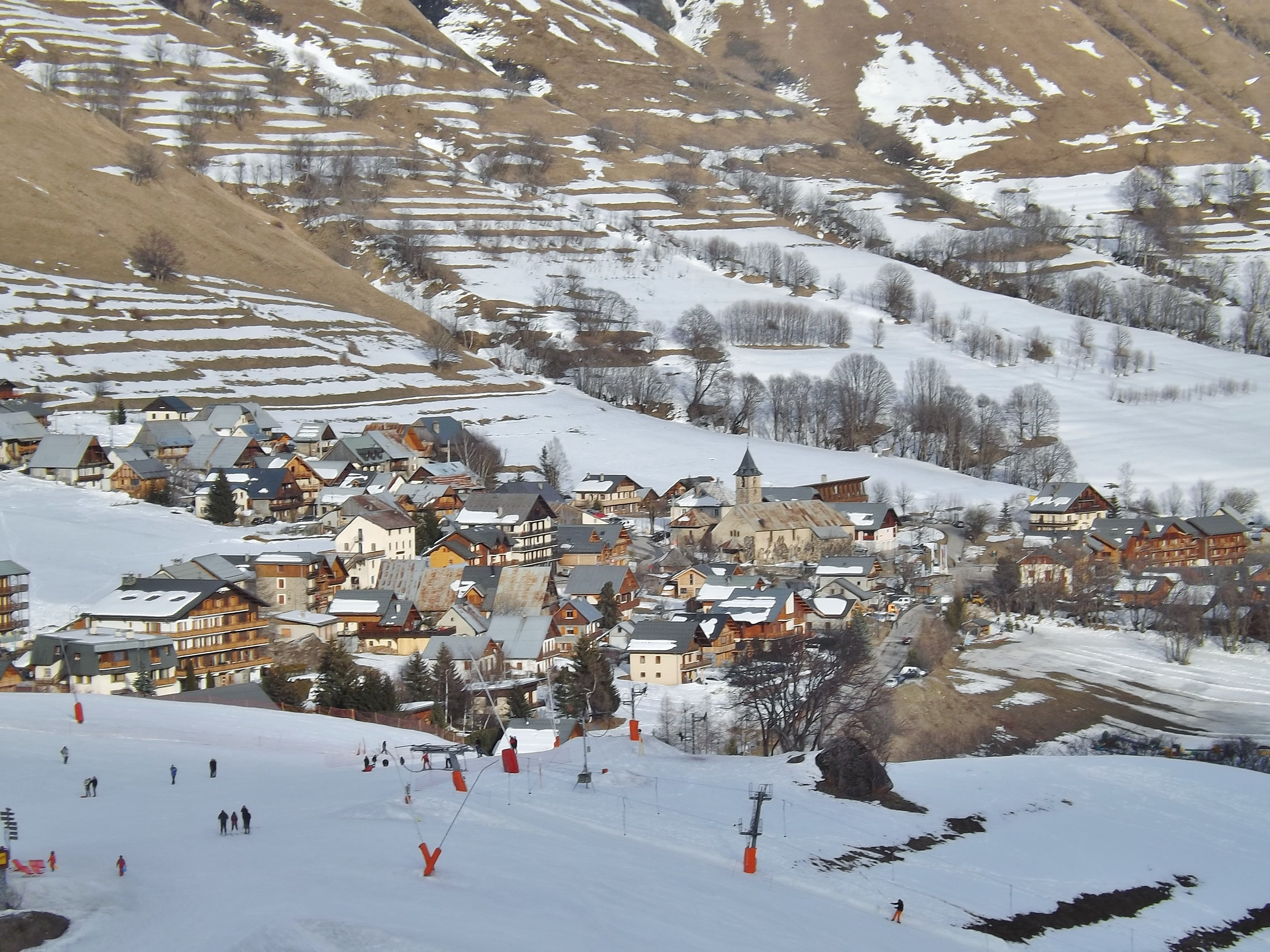 Sight, from the slopes, of Saint-Sorlin-d'Arves village and ski resort, in Savoie, France.